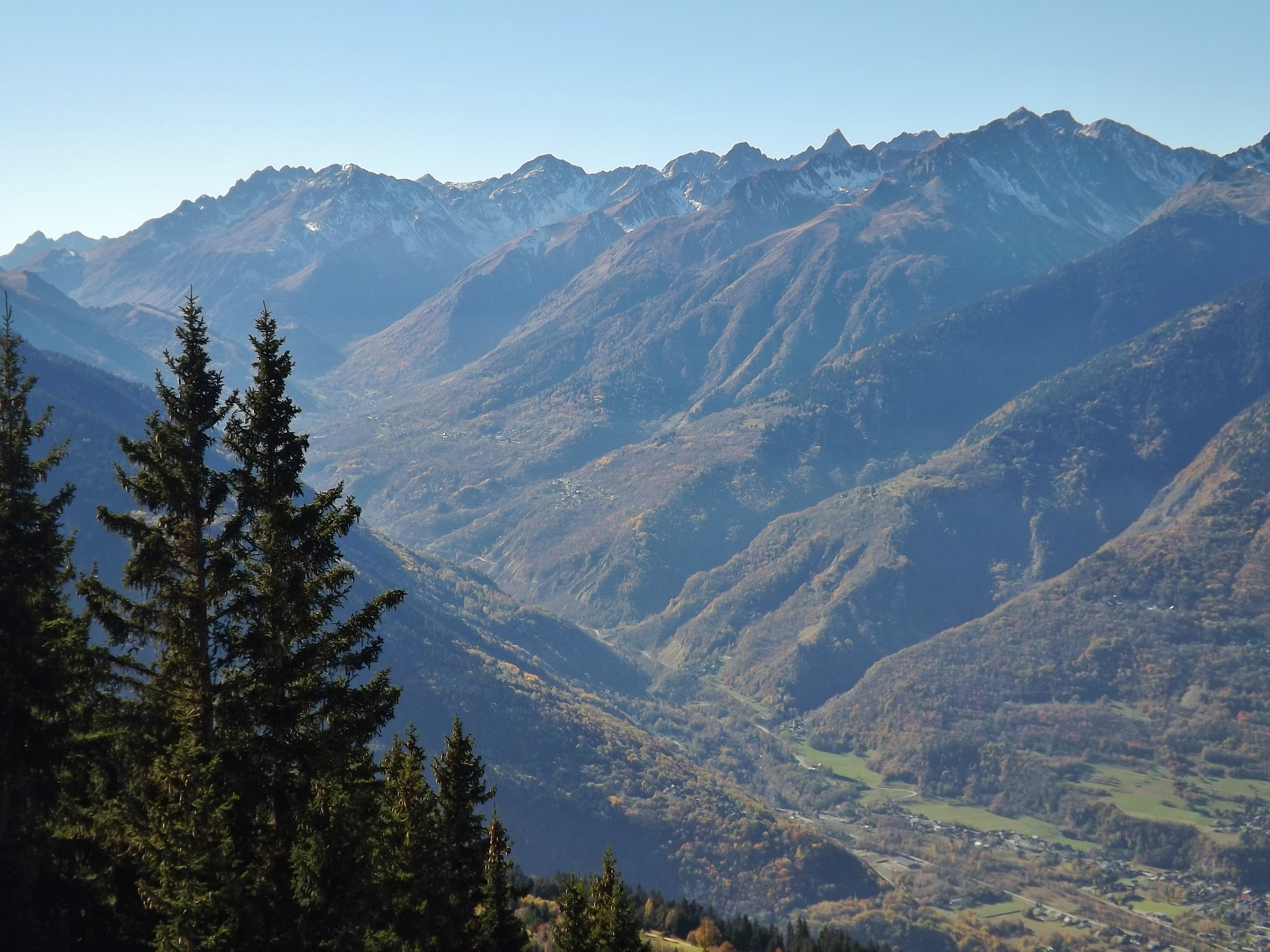 Panoramic sight, from the heights of Montpascal, of the vallée des Villards valley ended by the col du Glandon pass, sticked to the Maurienne valley, in Savoie, France.